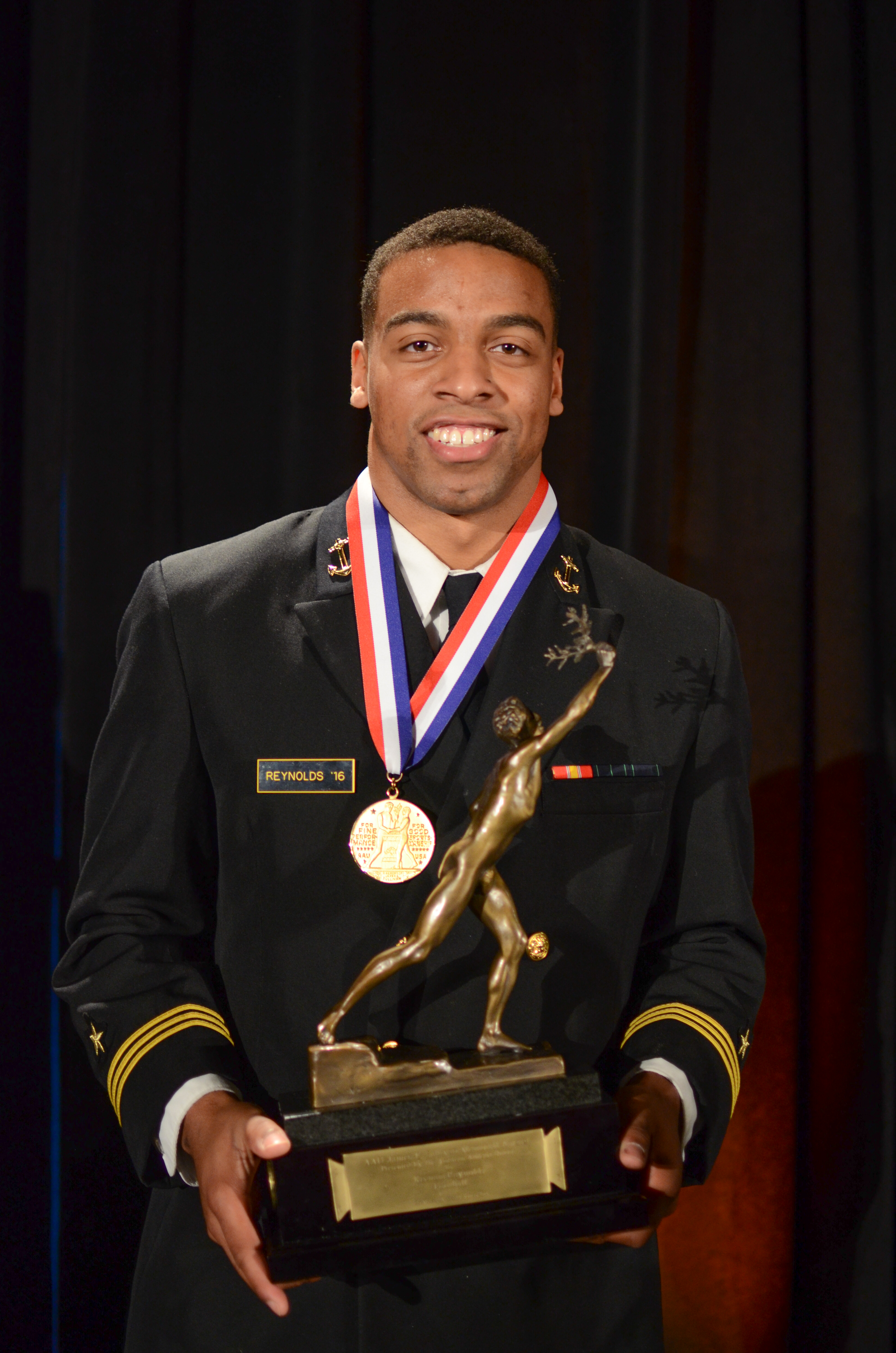 U.S. Naval Academy quarterback Keenan Reynolds was awarded the 86th AAU James E. Sullivan Award on April 10, 2016 at the New York Athletic Club. He shared the award with UConn women's basketball player Breanna Stewart, who was not in attendance at the ceremony.